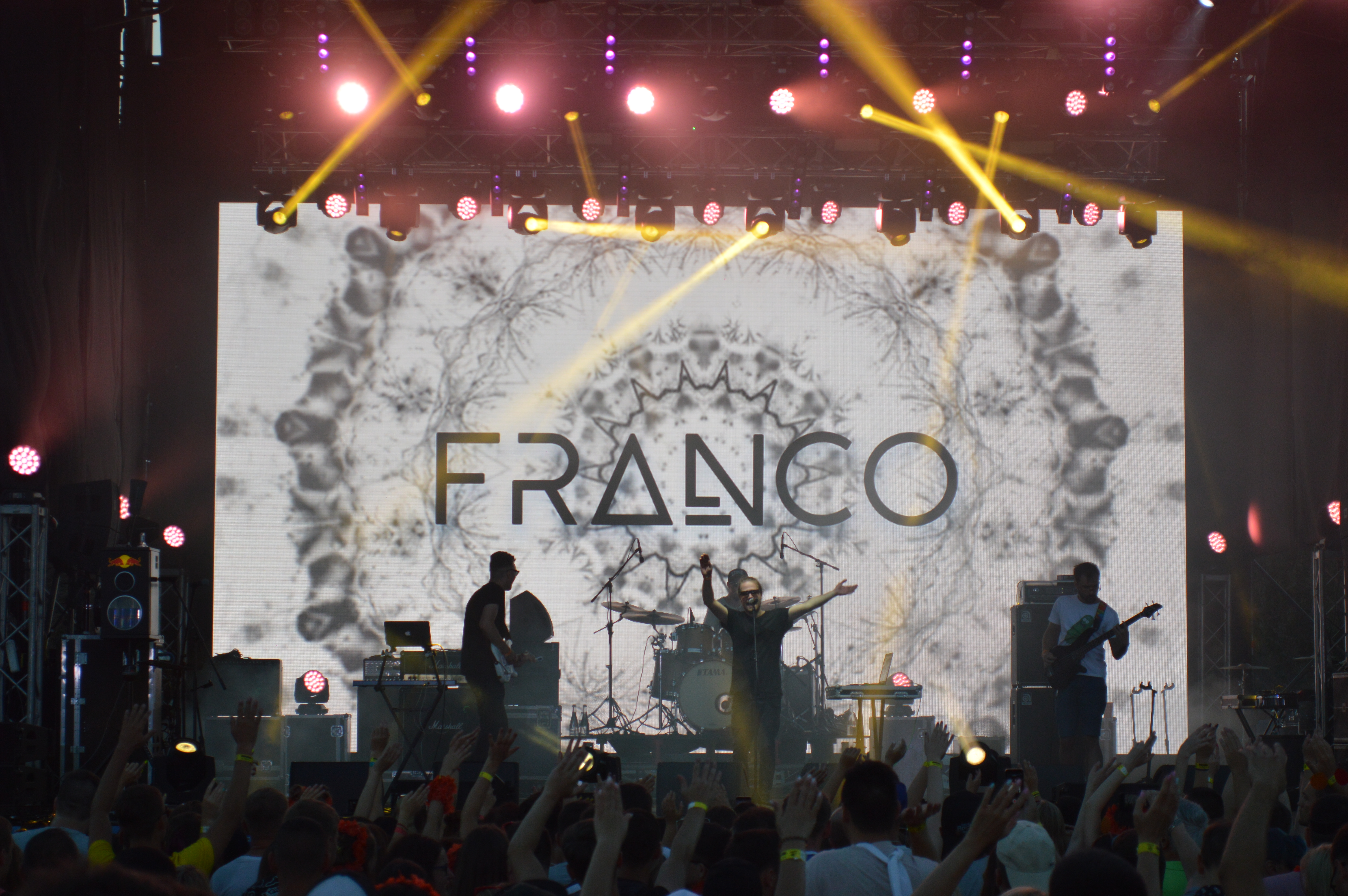 Ukrainian band FRANCO at the 2018 MRPL City Festival.